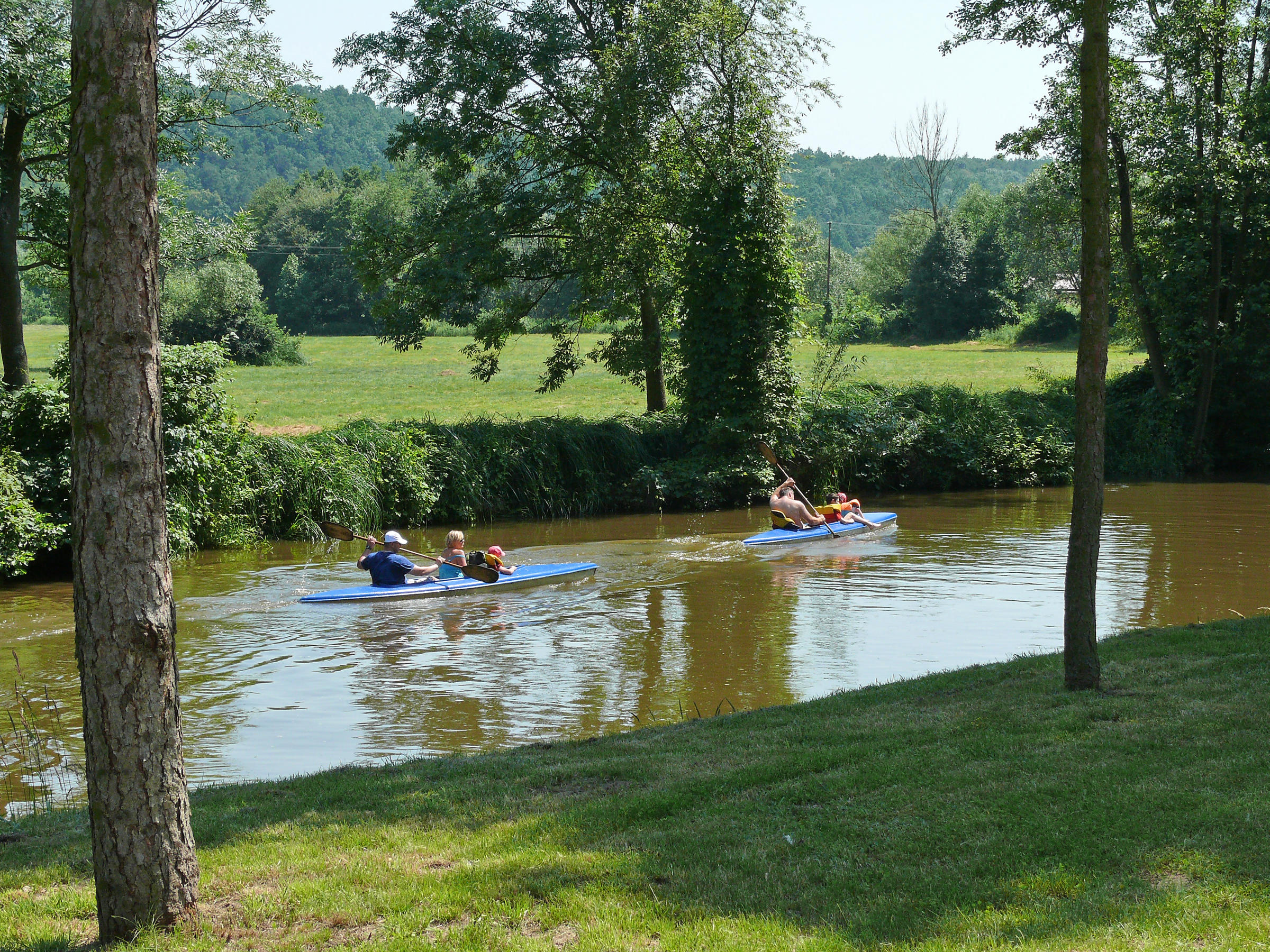 Kamienna river near Bałtów